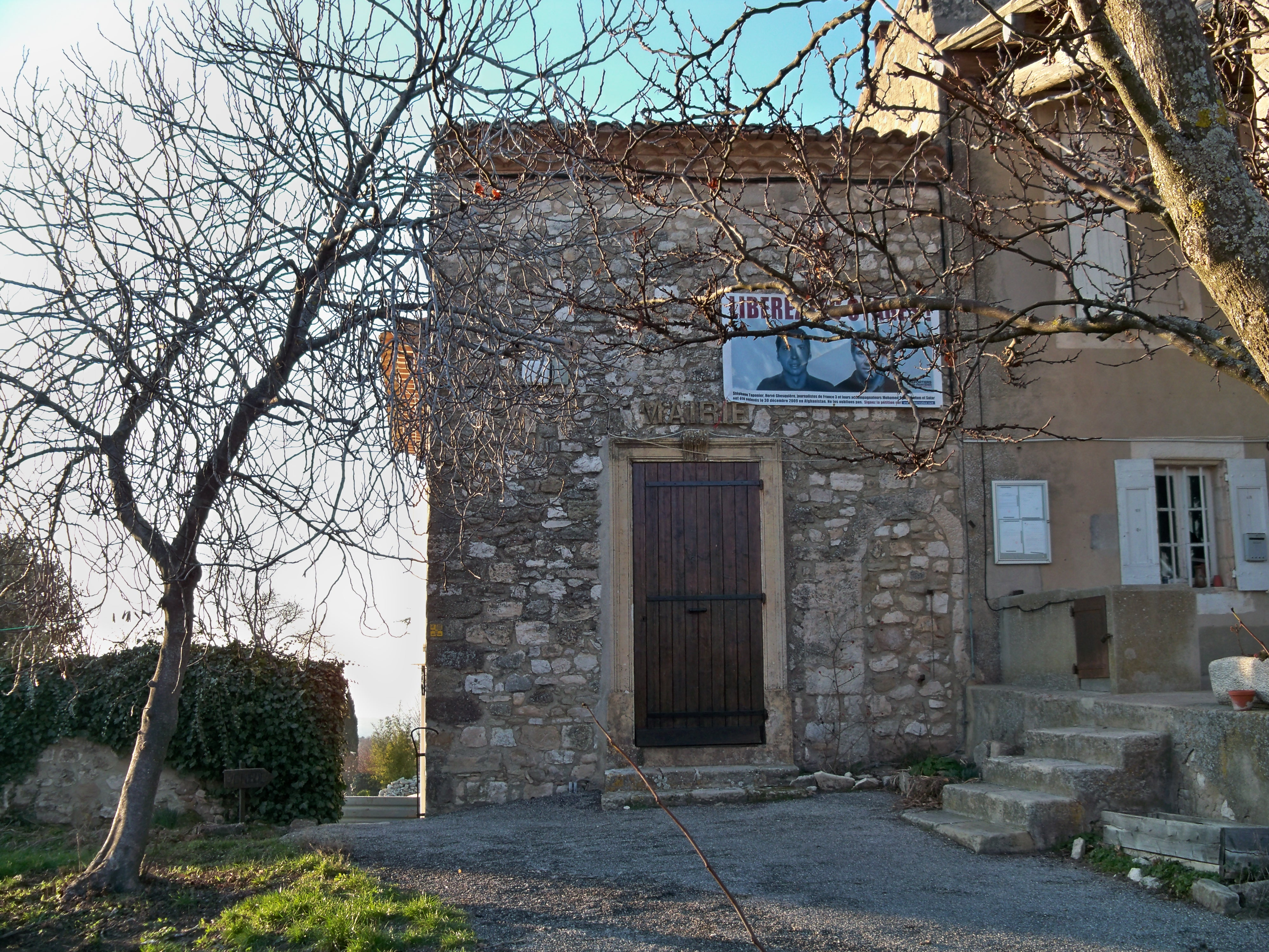 Town house in Montjustin (04), France